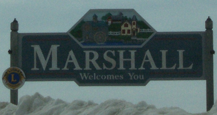 The welcome sign for Marshall, Dane County, Wisconsin, USA.